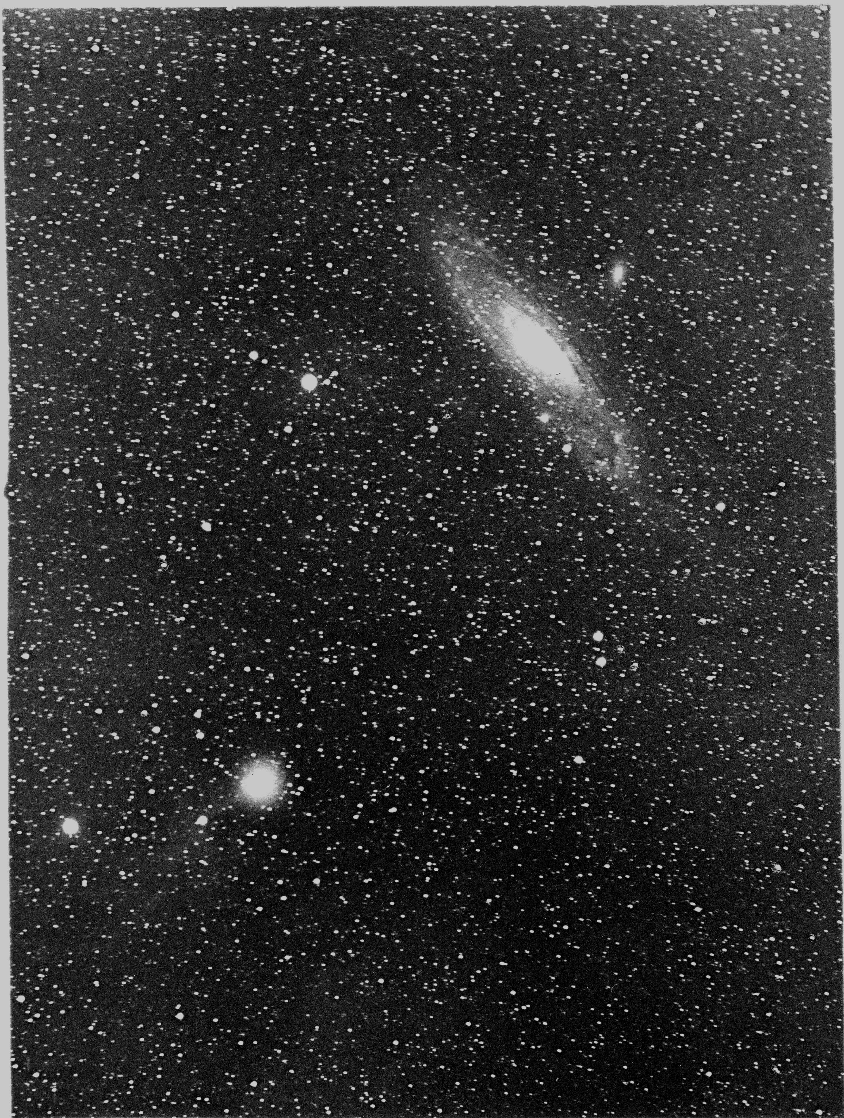 Holmes' Comet and the Andromeda Nebula